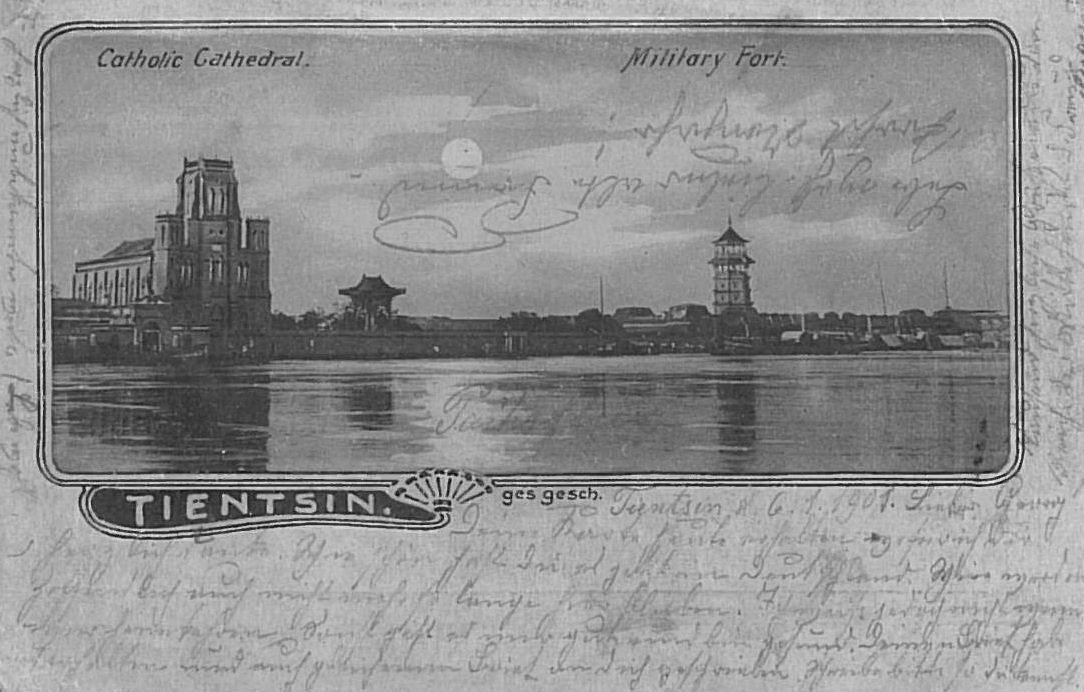 Historical postcard of China